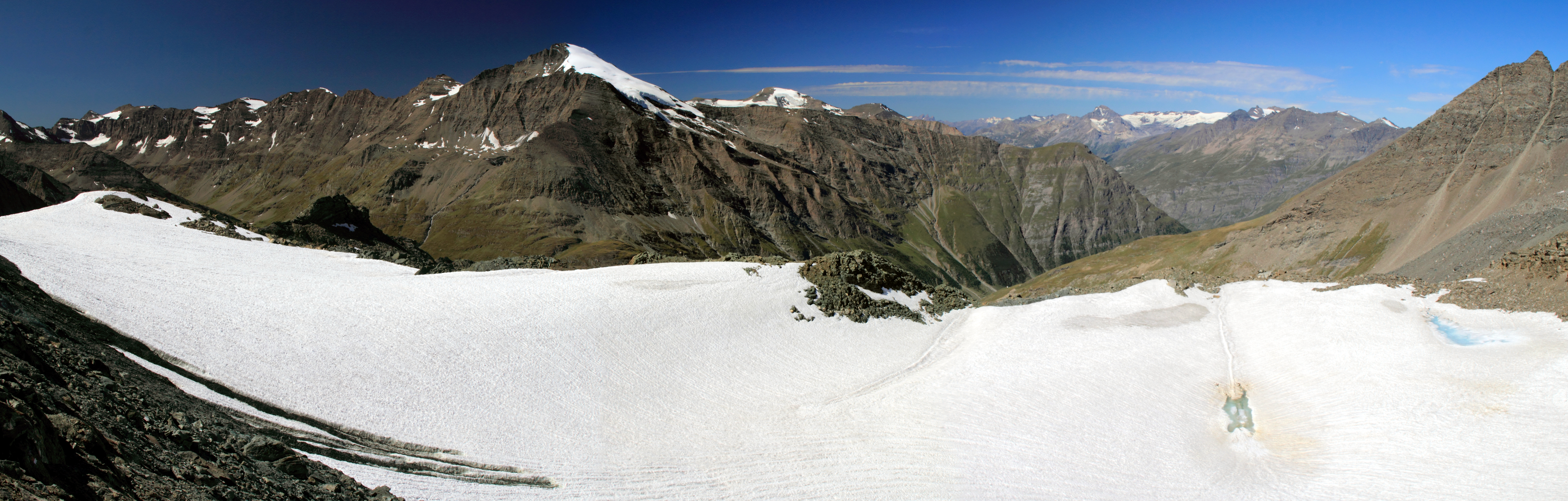 Le Charbonnel is almost in front